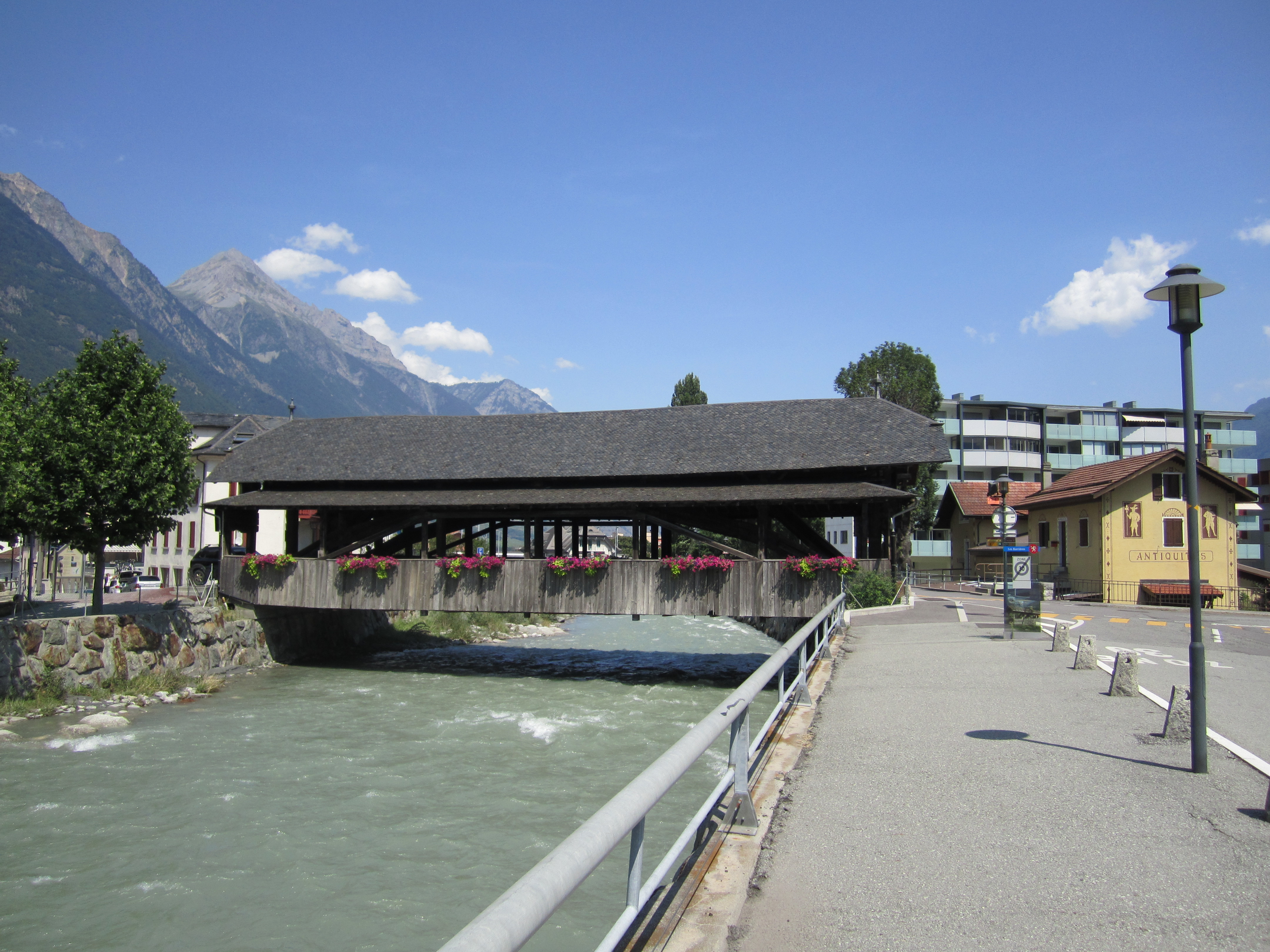 Pont de la Batiaz in Martigny